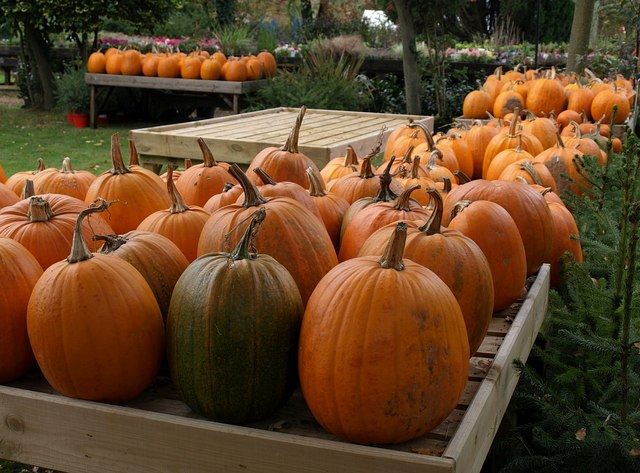 Pumpkins, Charlecote Plenty of choice at the plant shop by the National Trust car park in Charlecote.